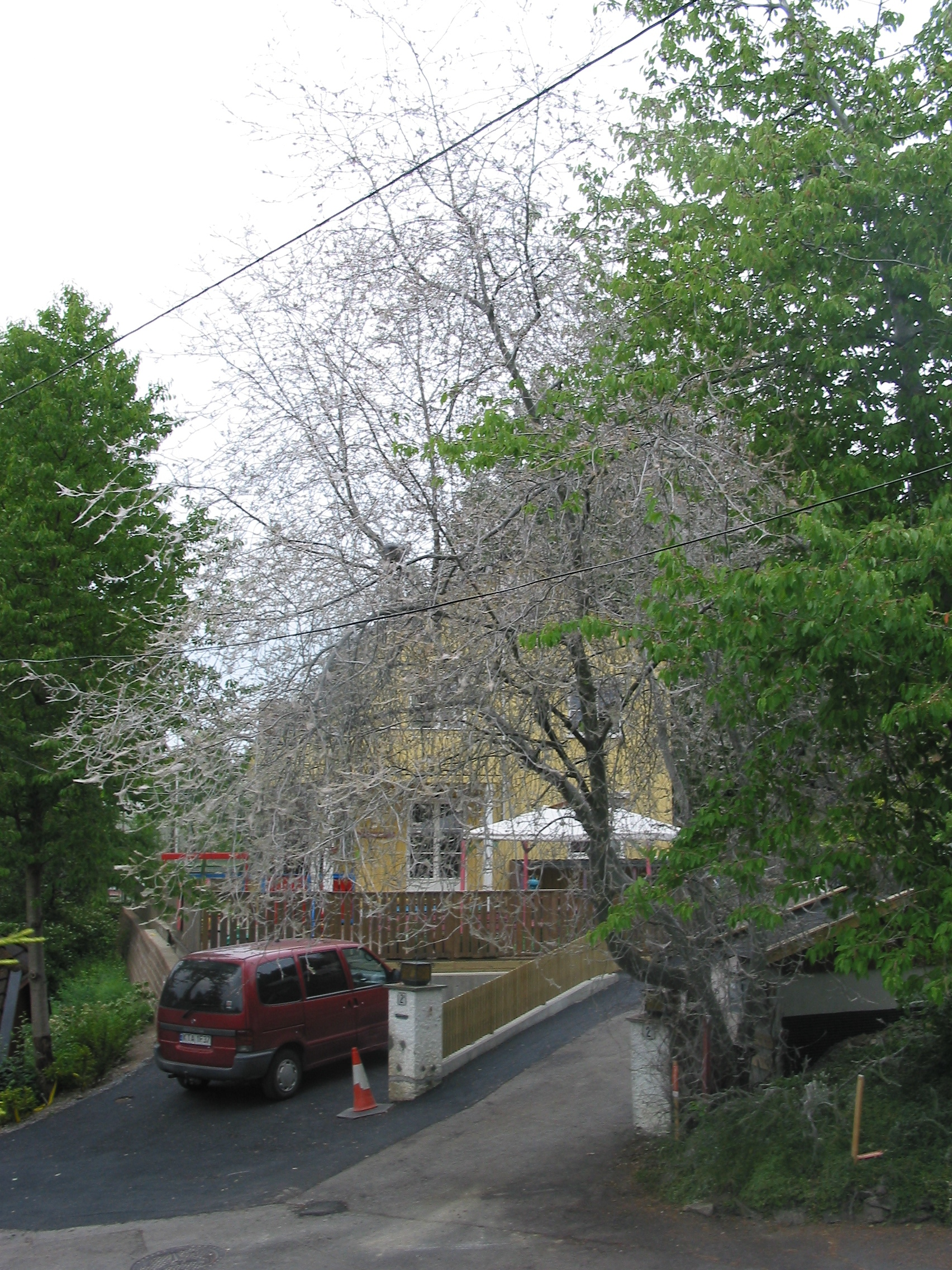 Prunus padus attacked by Yponomeuta evonymella in Stabekk, Norway, summer 2008. Note the contrast to other, non-infested trees.